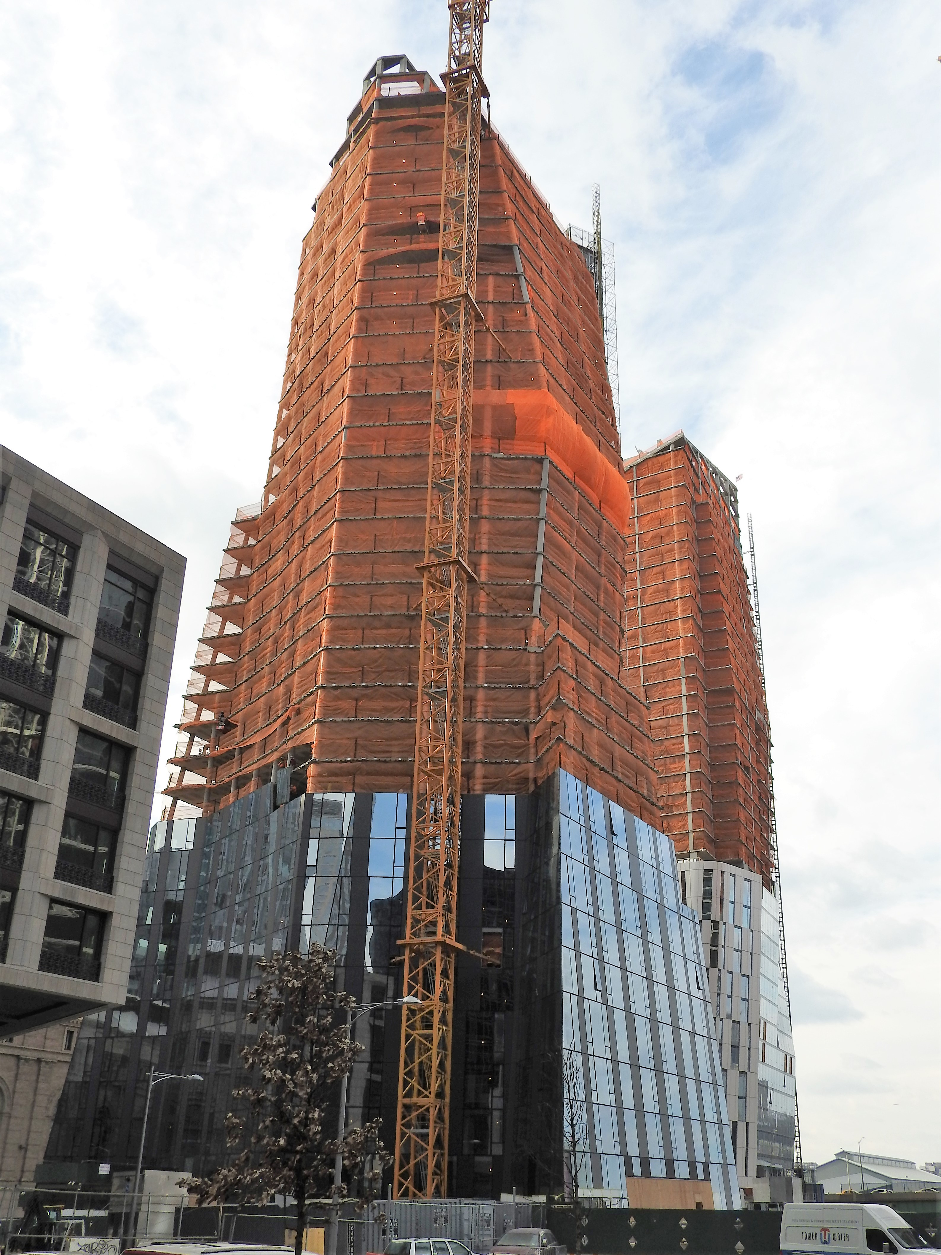 Looking west from 60th Street